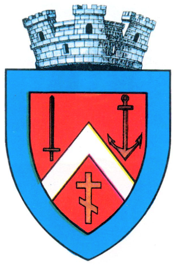 Interwar coat of arms of Reni, Ismail County, Kingdom of Romania.